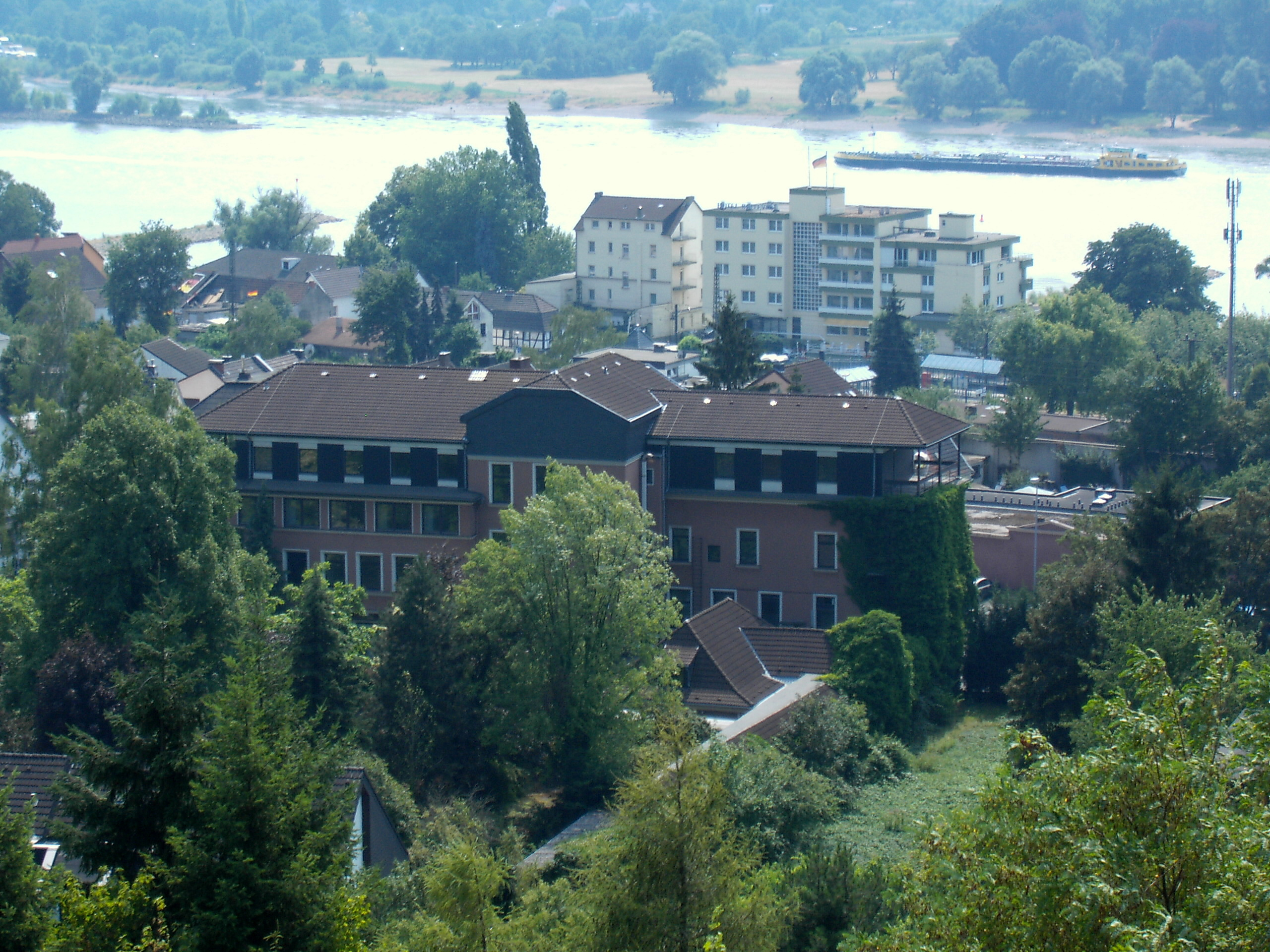 Former building of the DFJW and Bellevue hotel in Bad Honnef-Rhöndorf seen from the Uhlans memorial.